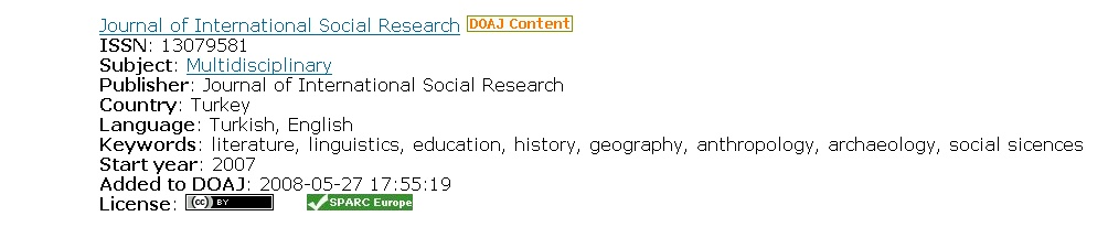 DOAJ entry with SPARC Open Access Seal